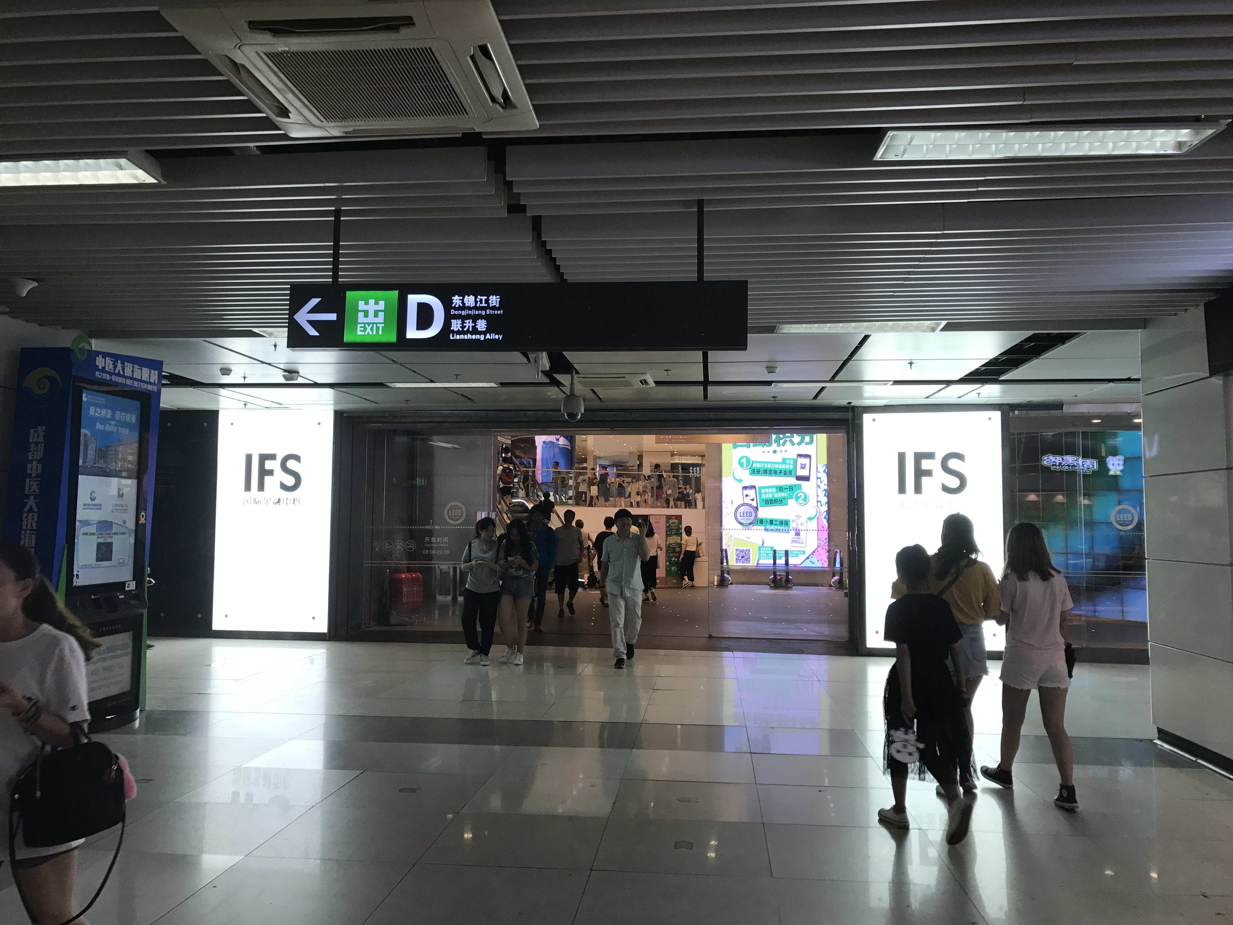 Lane to Shopping Center in Chunxi Road Station, Chengdu Metro